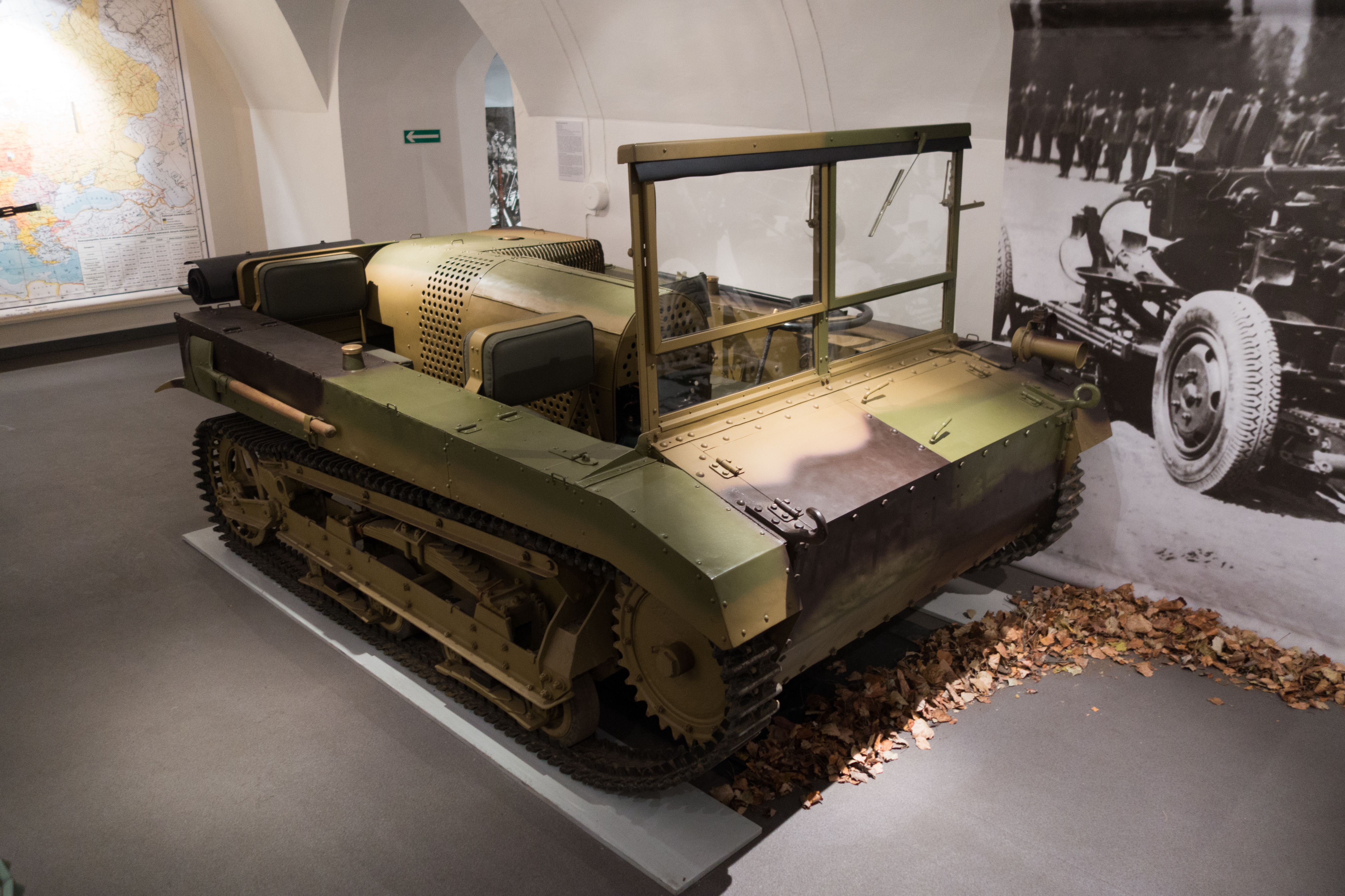 Poland 2012